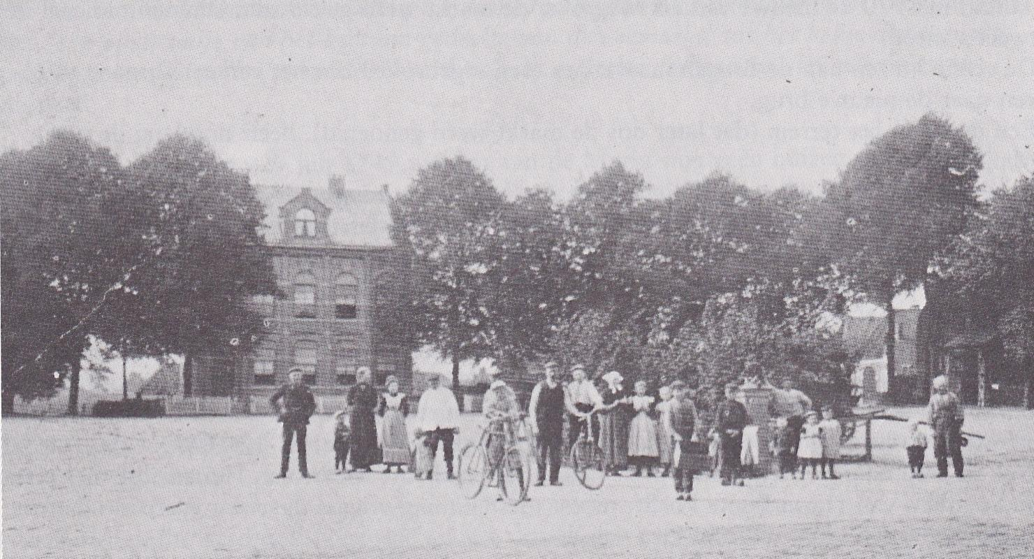 Market square Ommen with court 1903